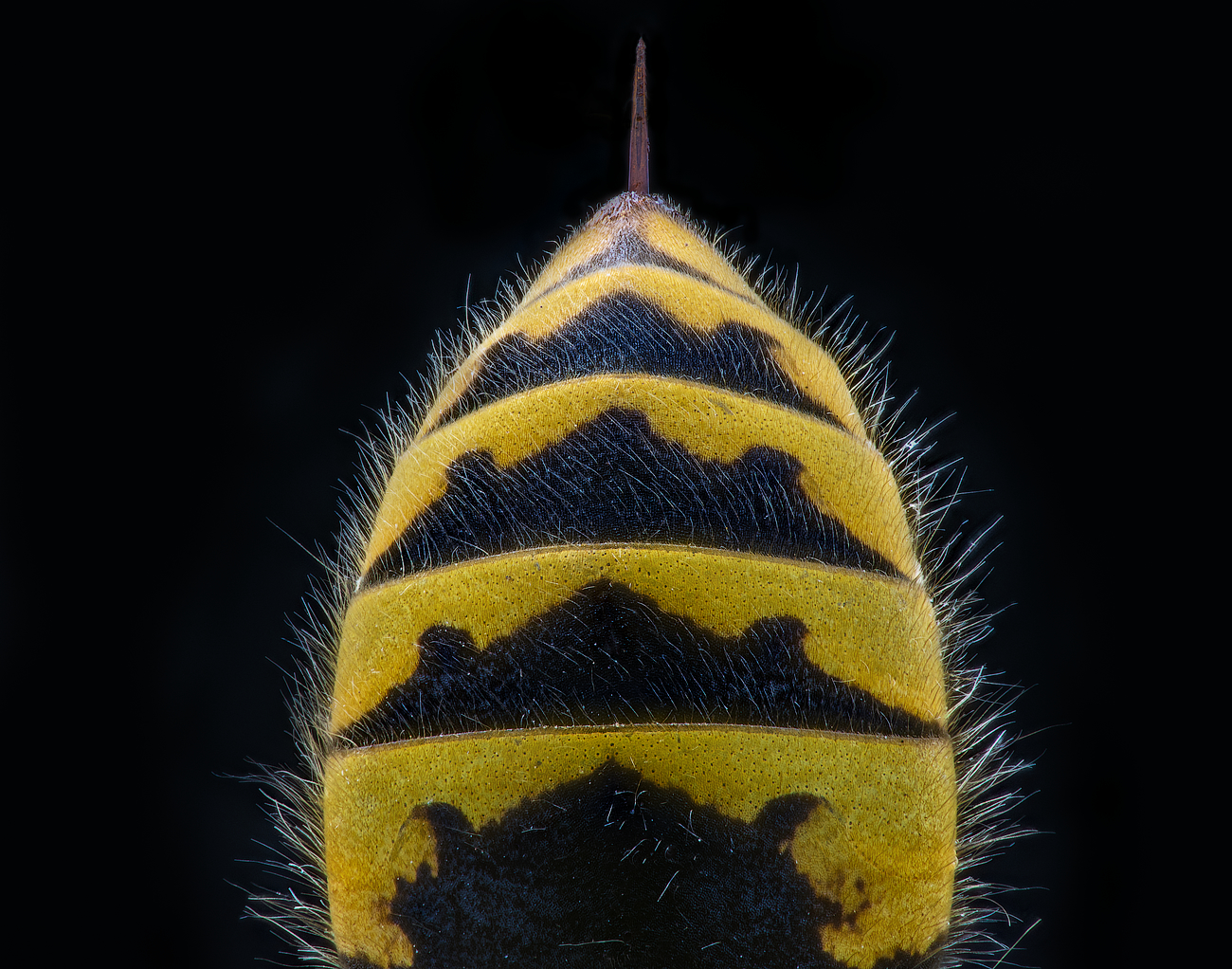 Wasp's sting